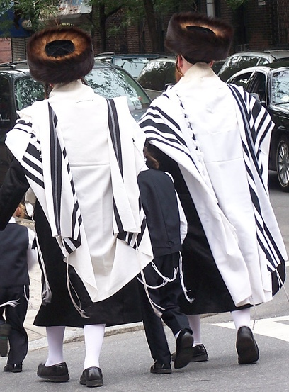 Ultra-orthodox Jews in Brooklyn